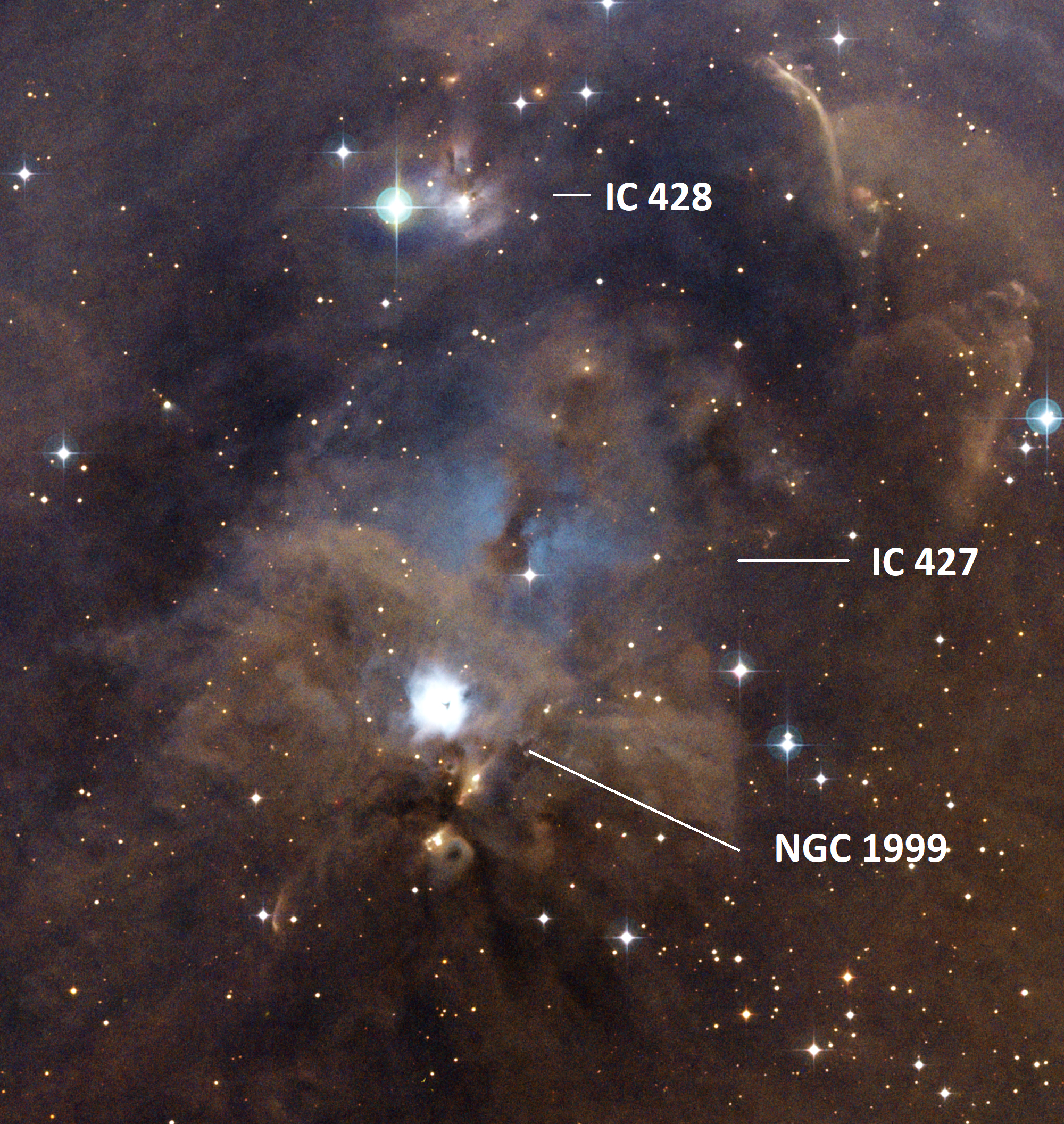 Nebulae NGC 1999, IC 427, and IC 428 in constellation Orion.